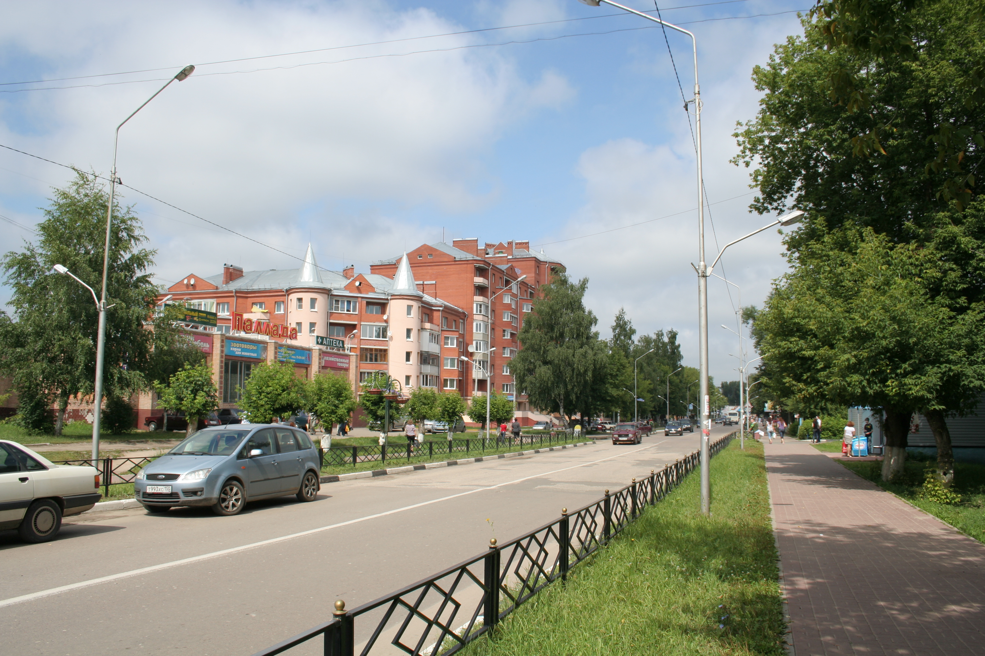 A street with houses in Kurovskoye, Moscow Oblast, Russia.